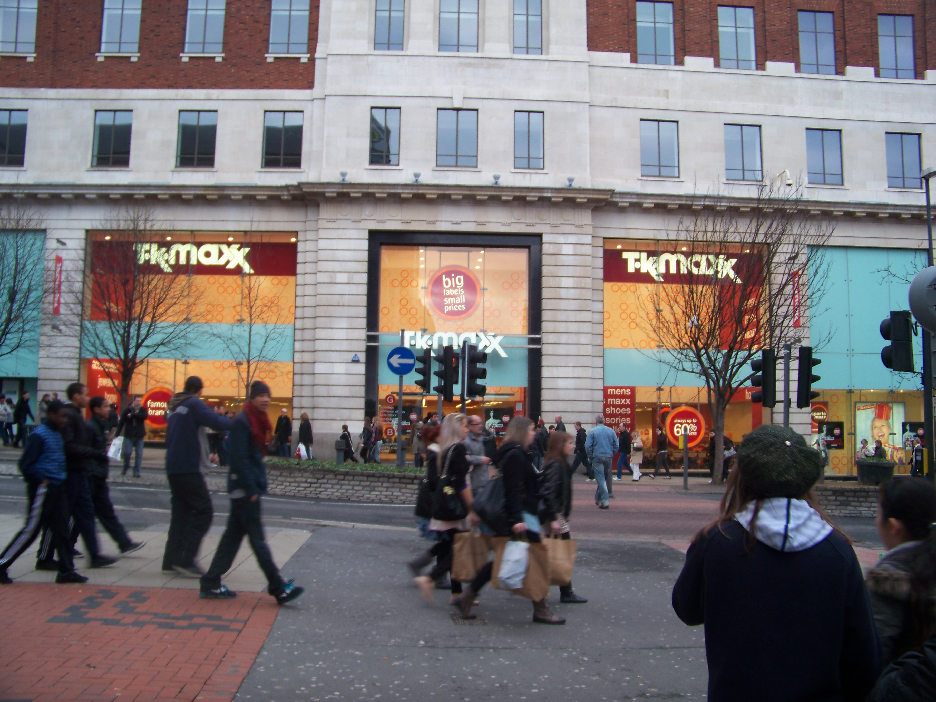 T.K. Maxx on The Headrow, Leeds (taken shortly after relocating here from the top floor of the Leeds Shopping Plaza). The building was formerly Allders and prior to that Lewis'. Taken on the afternoon of Saturday the 23rd of January 2010.